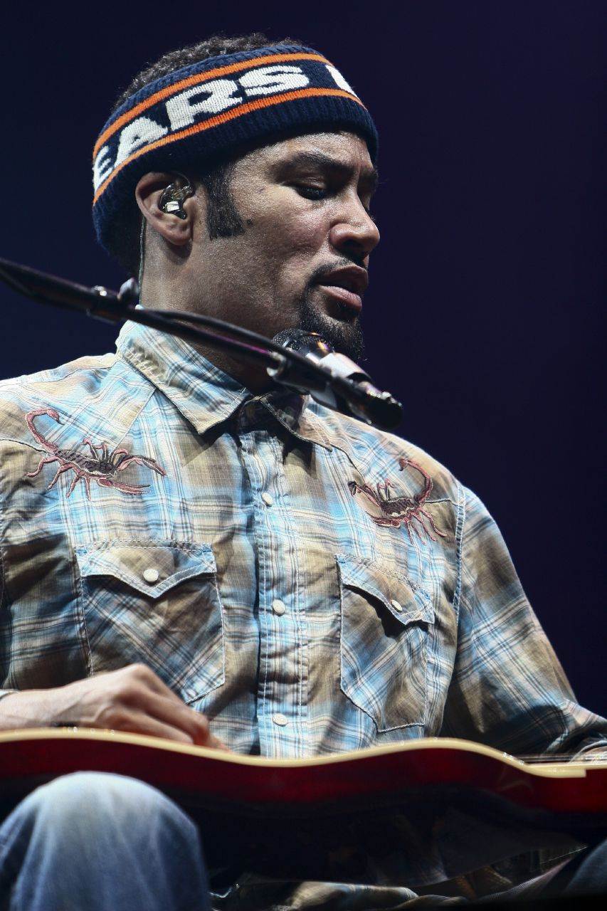 Ben Harper at the Eurockéennes 2008